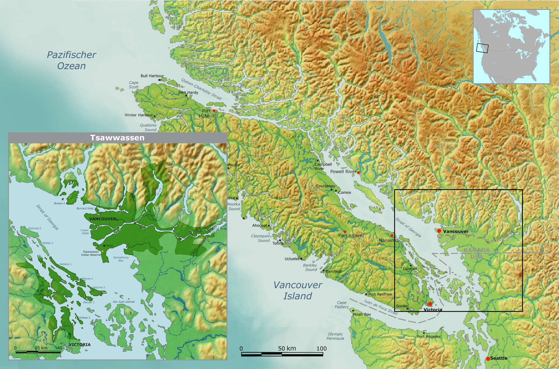 Map of traditional Tsawwassen tribal territory.